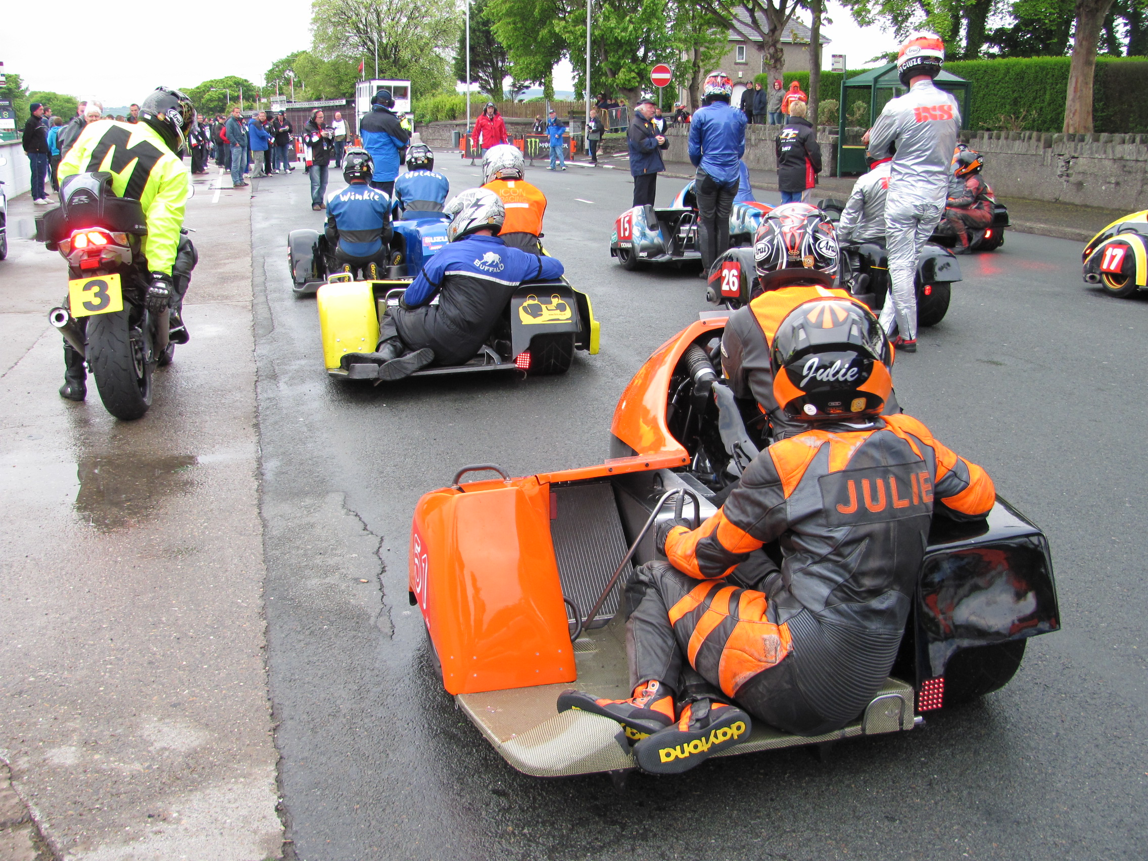 TT Grandstand